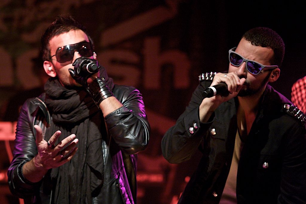 Danish R&B group Outlandish.